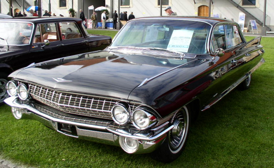 1961 Cadillac Series 62